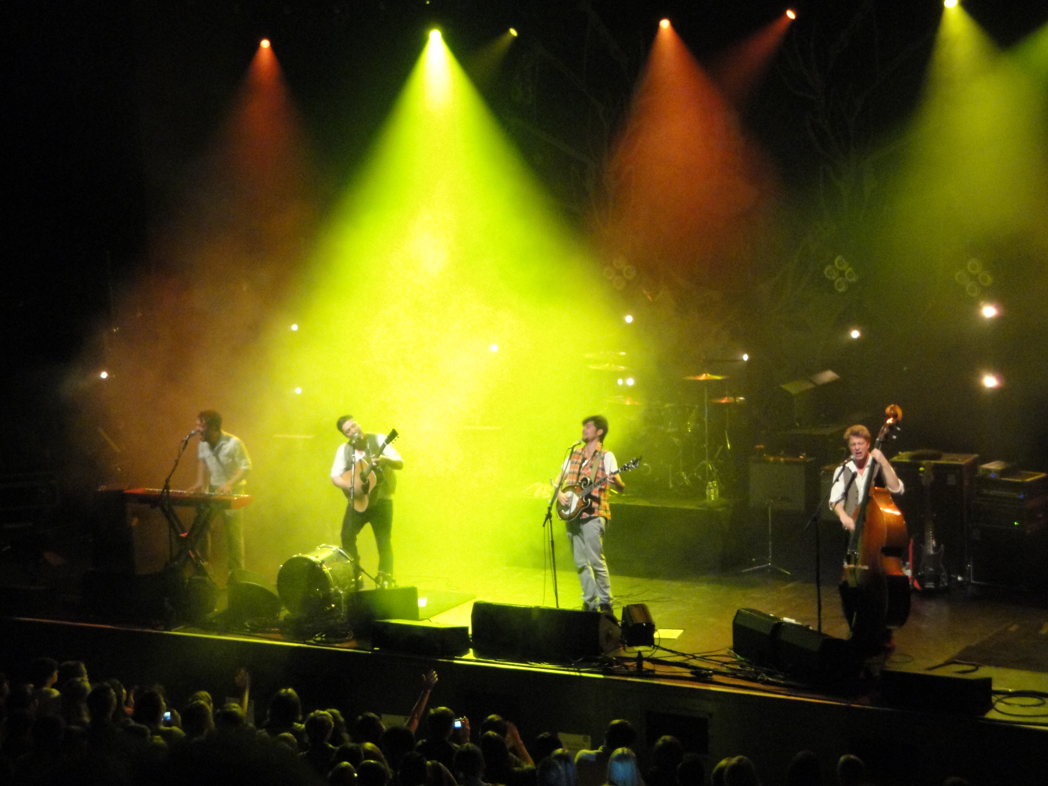 Mumford & Sons, seen during a liver performance at Brighton Dome, Brighton, East Sussex.